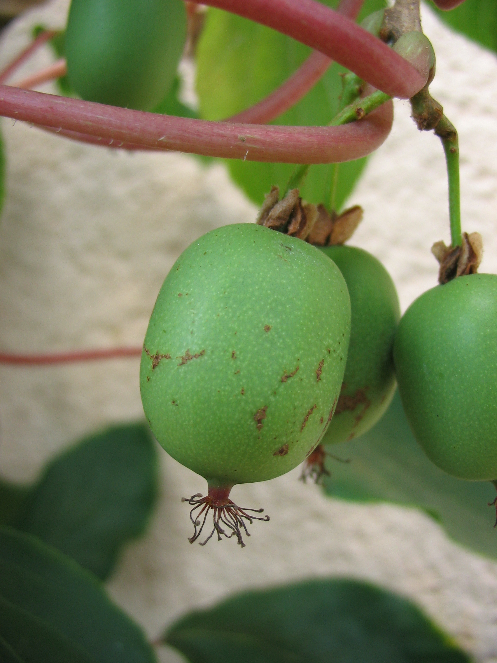 Actinidia arguta 'Weiki', Kiwi-fruit, small 'Weiki'